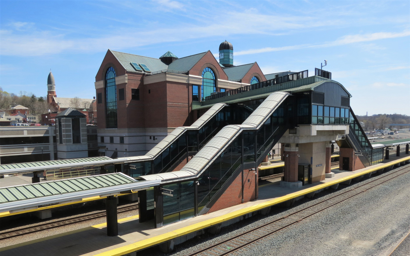 View from the NW on the Herrick Street Bridge